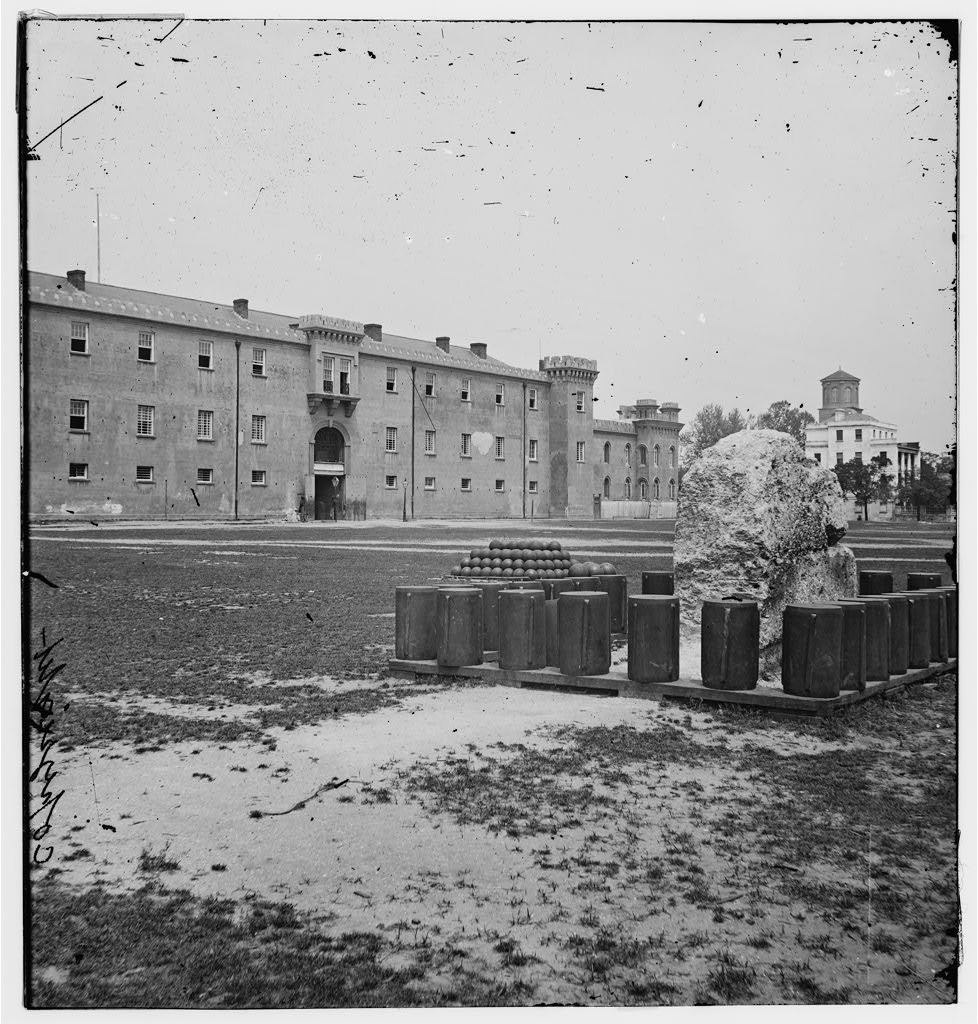 The remnants of Charleston's defensive wall, known as a horn work, is in this 1865 photo with the original Citadel building in the background.